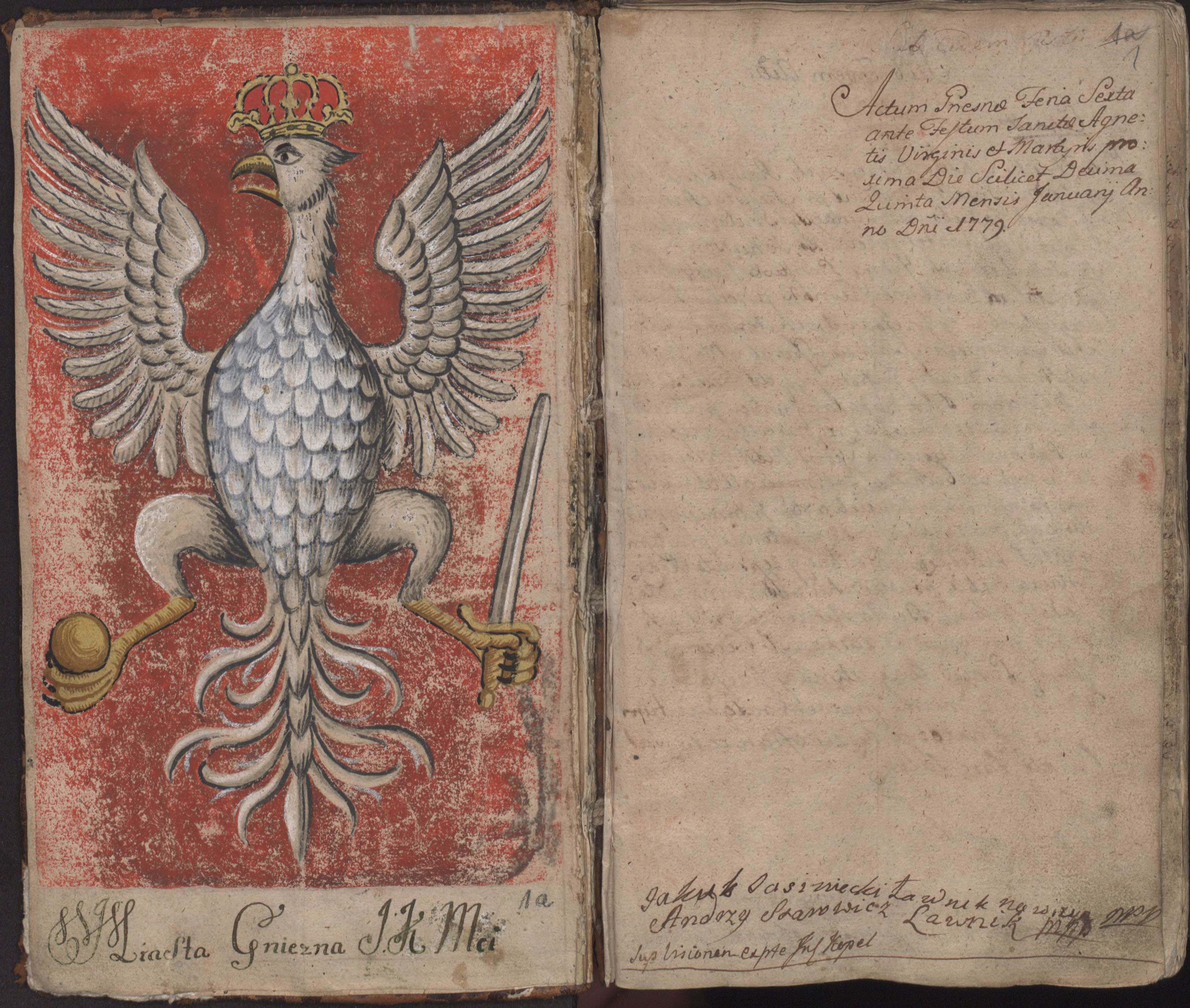 From town council's book. State Archive in Poznań. Digital identification number: oai